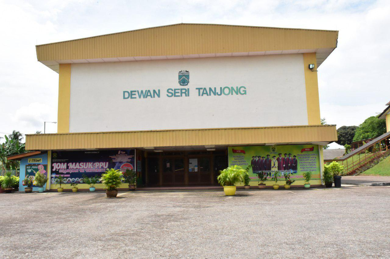 Dewan Seri sekolah